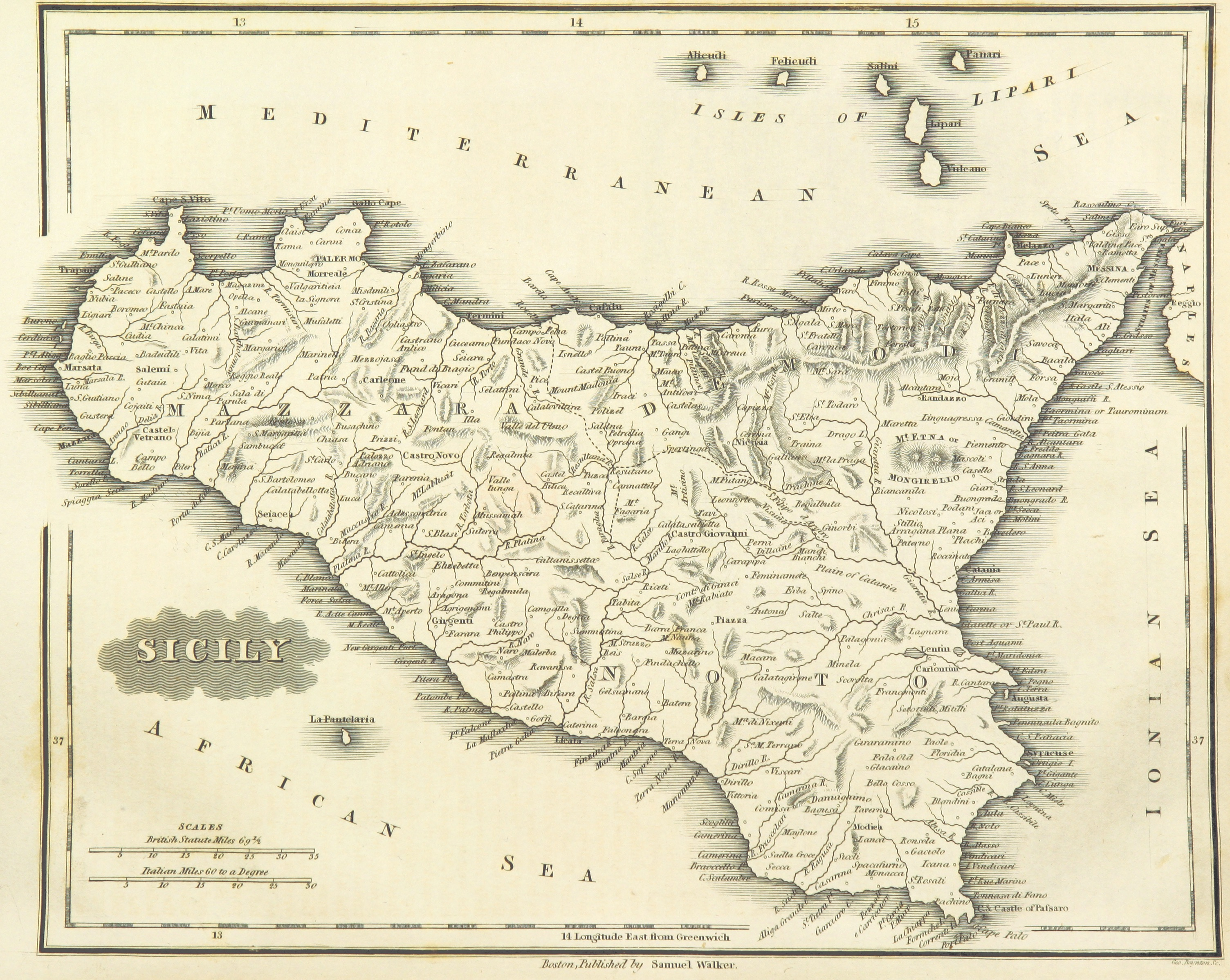 View this map on the BL Georeferencer service. Image taken from: Title: "[Universal Geography, or a Description of all parts of the world on a new plan, etc. [With maps. " Author: BRUUN, Malthe Conrad. Contributor: Percival, James Gates Shelfmark: "British Library HMNTS 1295.l.4." Volume: 03 Page: 162 Place of Publishing: Boston Date of Publishing: 1834 Publisher: Samuel Walker Edition: [Another edition.] A System of Universal Geography, or a Description of all the parts of the world ... With additions and corrections by James G. Percival, etc. [With maps.] Issuance: monographic Identifier: 000509452 Explore: Find this item in the British Library catalogue, 'Explore'. Open the page in the British Library's itemViewer (page image 162) Download the PDF for this book Image found on book scan 162 (NB not a pagenumber)Download the OCR-derived text for this volume: (plain text) or (json) Click here to see all the illustrations in this book and click here to browse other illustrations published in books in the same year. Order a higher quality version from here.